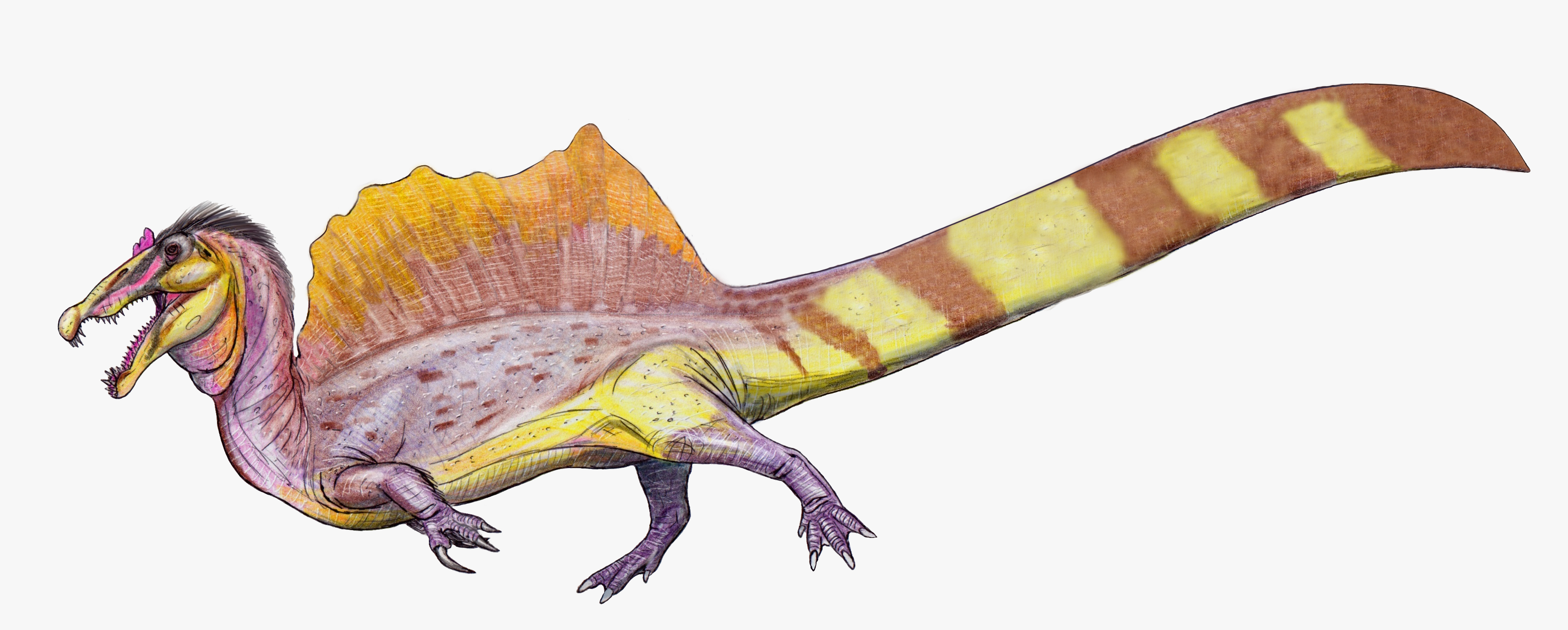 The new reconstruction of Spinosaurus aegyptiacus